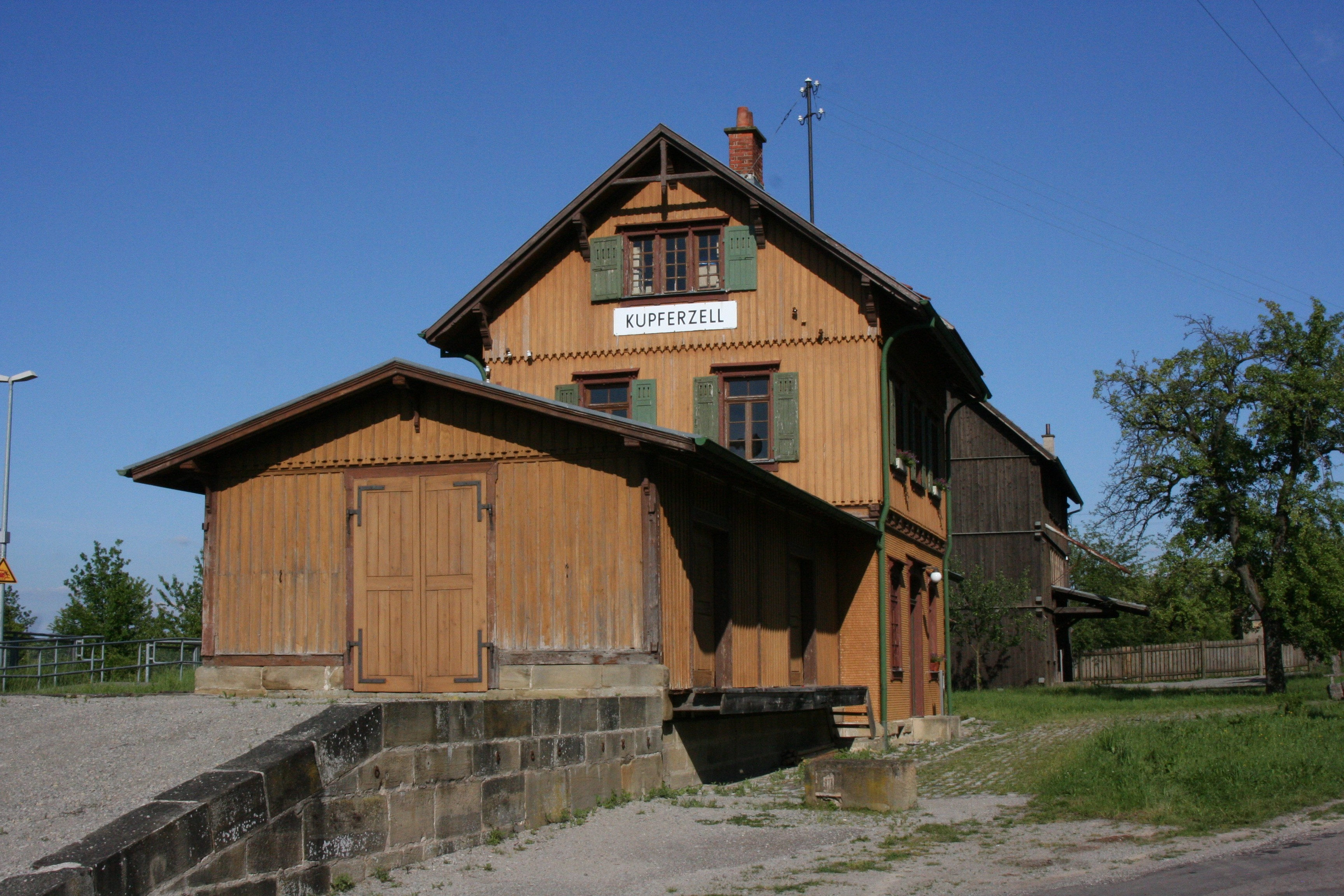 The old train station of Kupferzell in the Open Air Museum Wackershofen